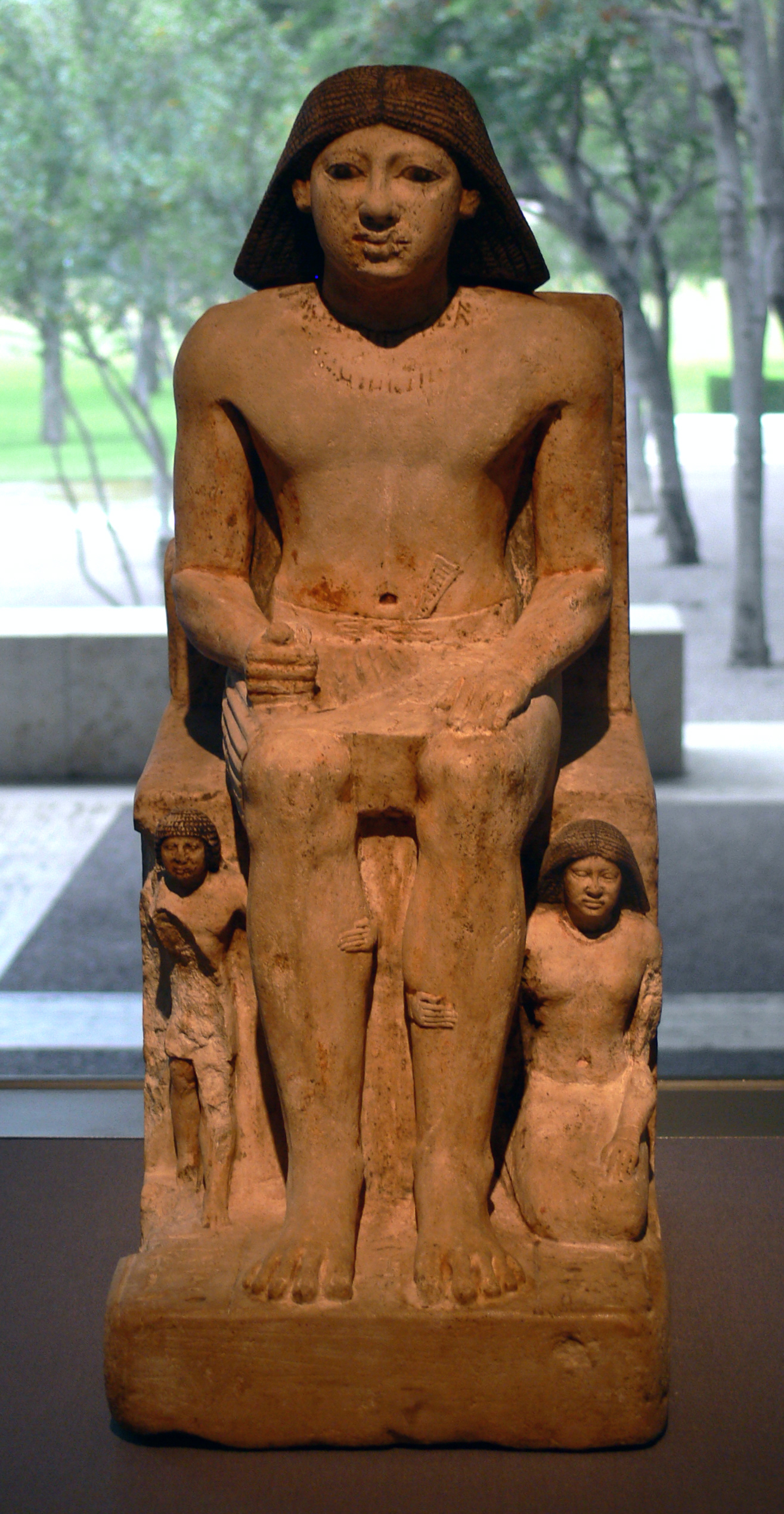 Group Statue of Ka-nefer and His Family